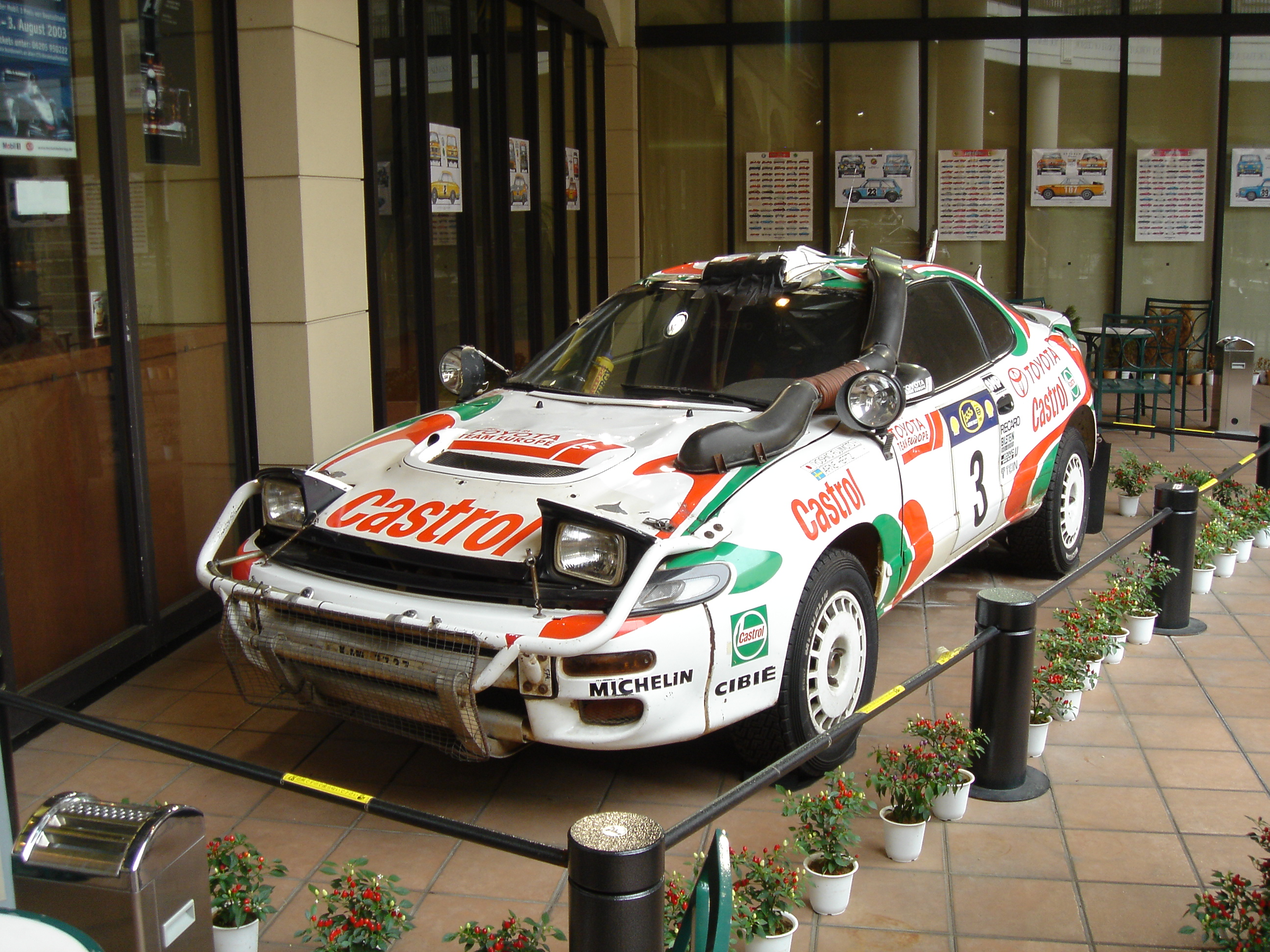 Toyota Celica Turbo 4WD (ST185) 1995 Safari Rally winner.